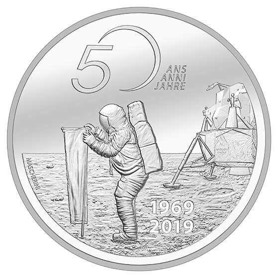 20 CHF coin commemorating the 50th Anniversary of the Apollo 11 moon landing. Buzz Aldrin deploying the Solar Wind Composition Experiment.